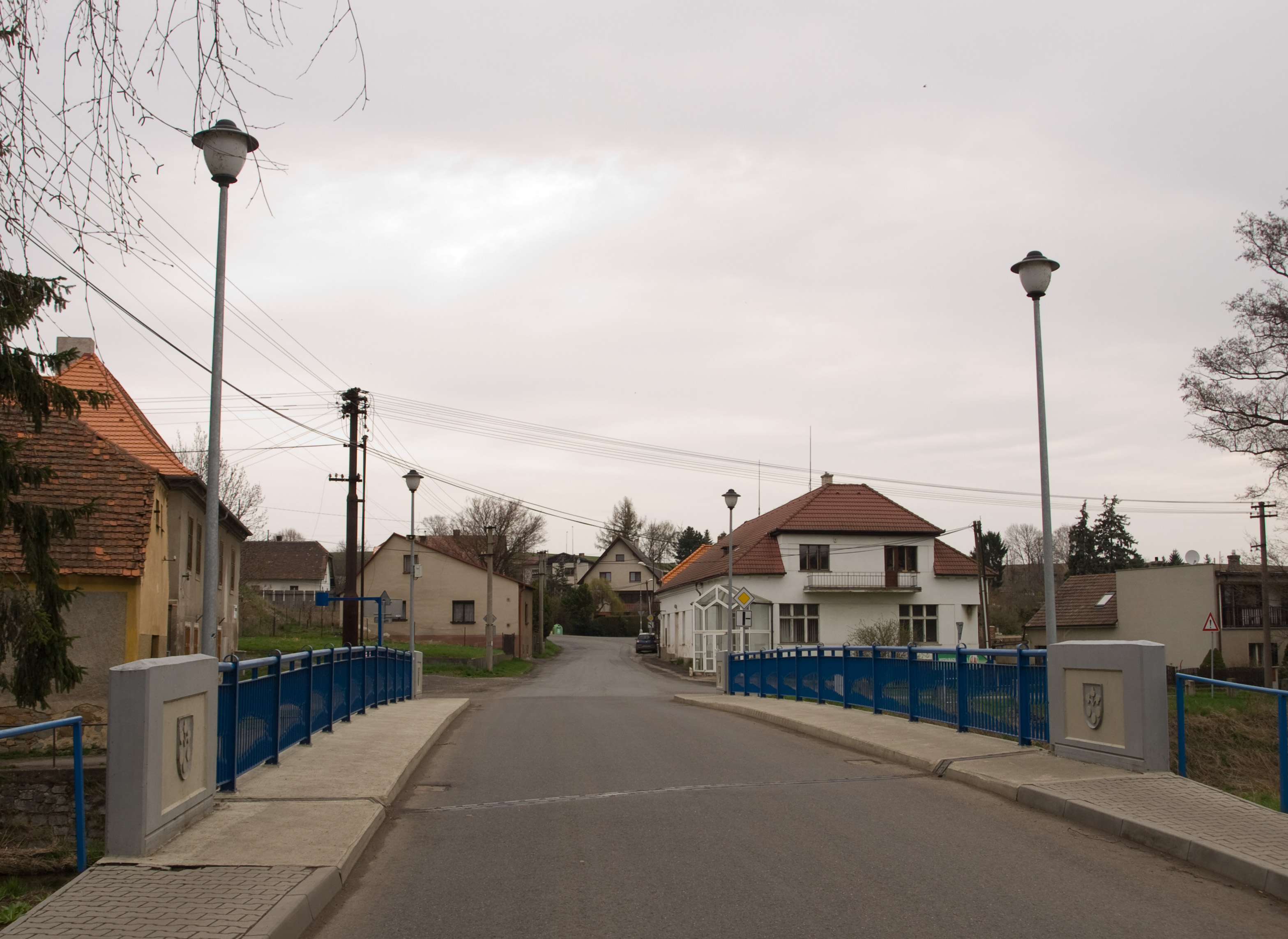 Praskolesy, Beroun District, Central Bohemian Region, Czech Republic